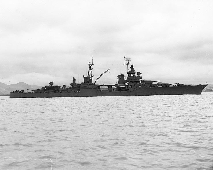 The U.S. Navy heavy cruiser USS Chester (CA-27) off the Mare Island Navy Yard, San Francisco, California (USA), on 16 May 1945, following her last wartime overhaul.